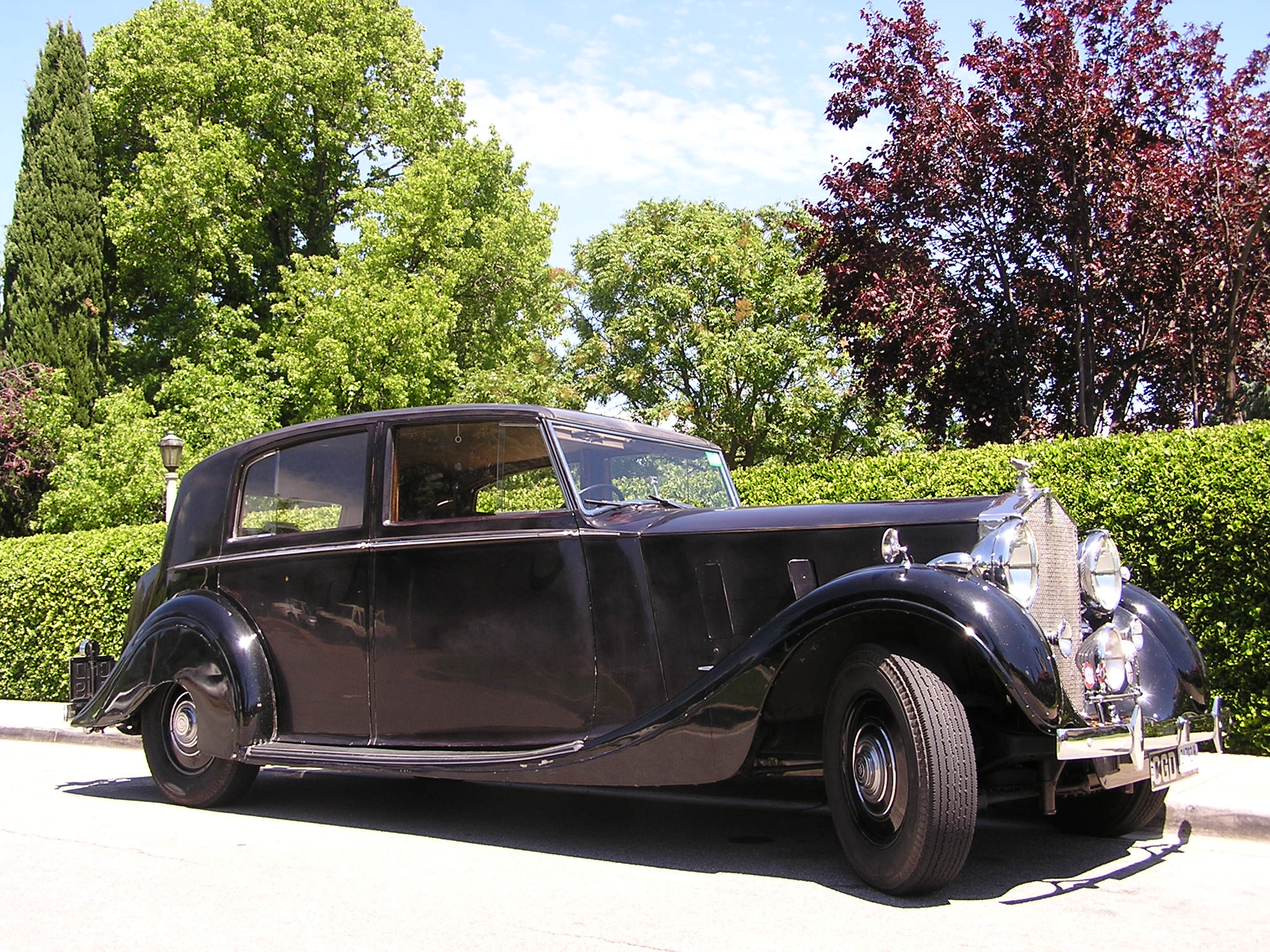 Rolls Royce Phantom, circa 1936. Photographed outside the Hyatt Hotel Canberra December 2005 by AYArktos